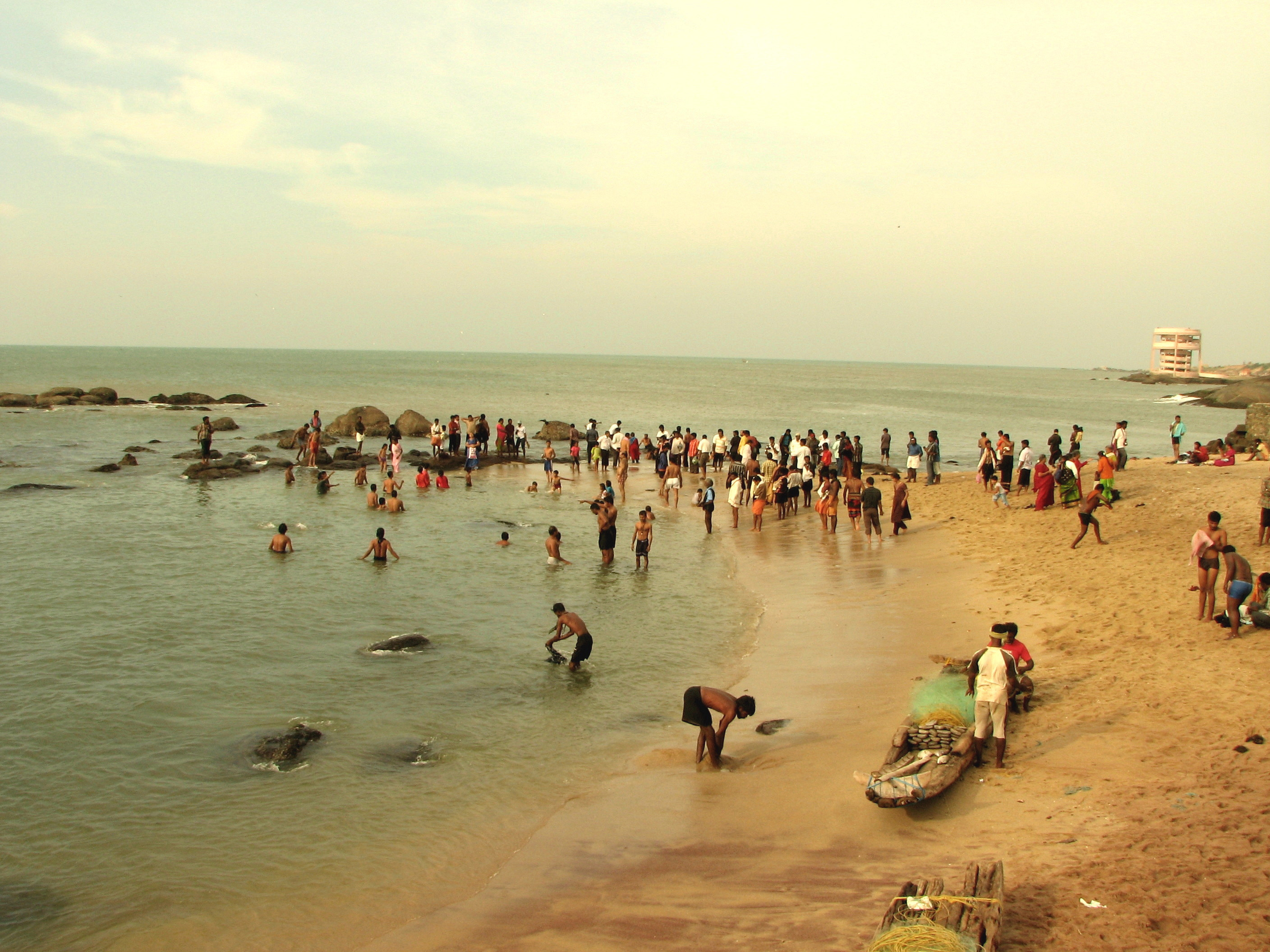 self-made photograph ; author : Infocaster